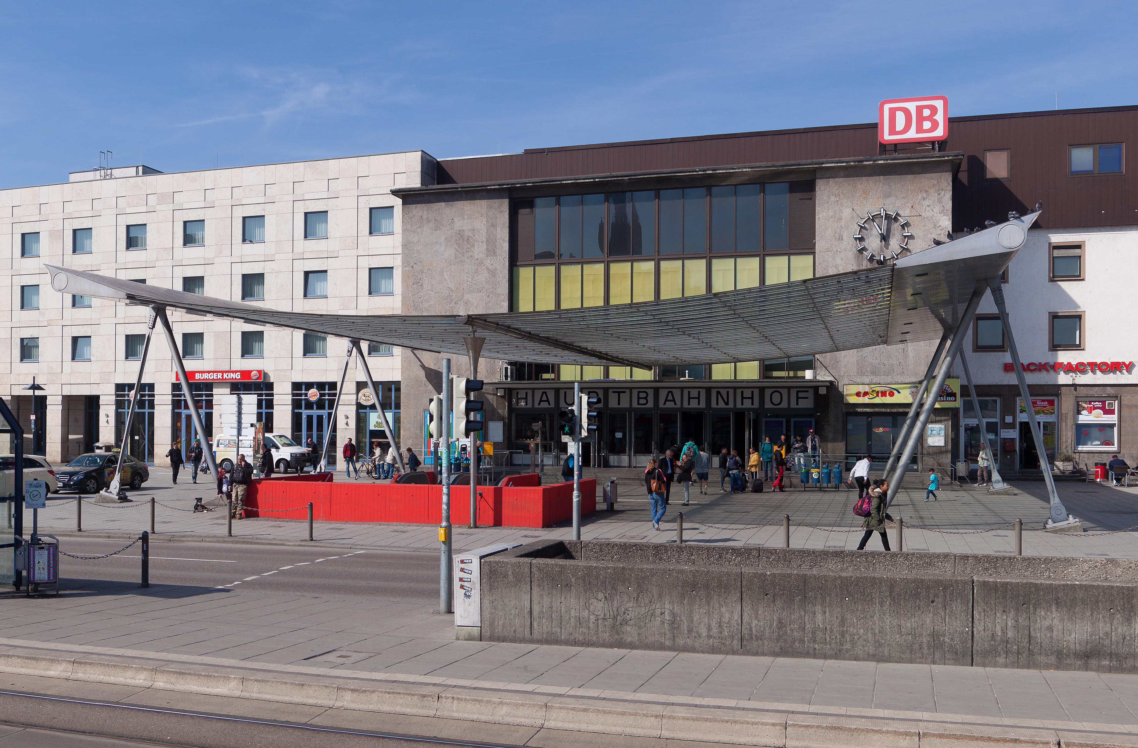 Hauptbahnhof (main station) in Ulm, view on the main entry.